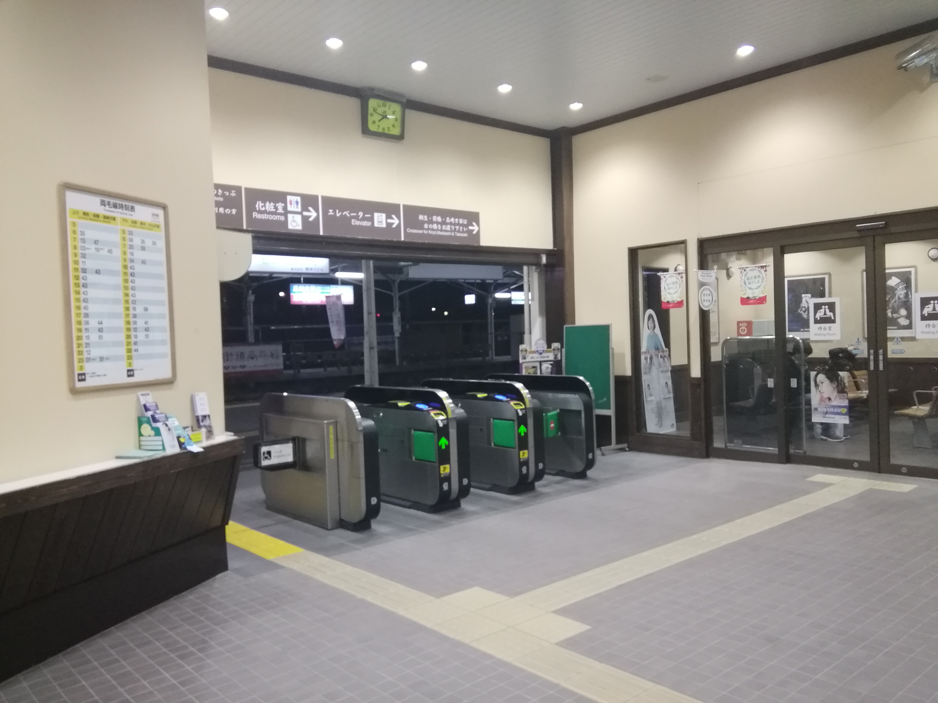 Ticket gate of JR East Ashikaga Sta.